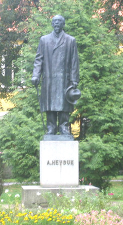 Monument to the poet Adolf Heyduk (1835-1923) in Písek (Czech Republic, South Bohemian Region) in 1935 [1] by Otakar Švec [2]